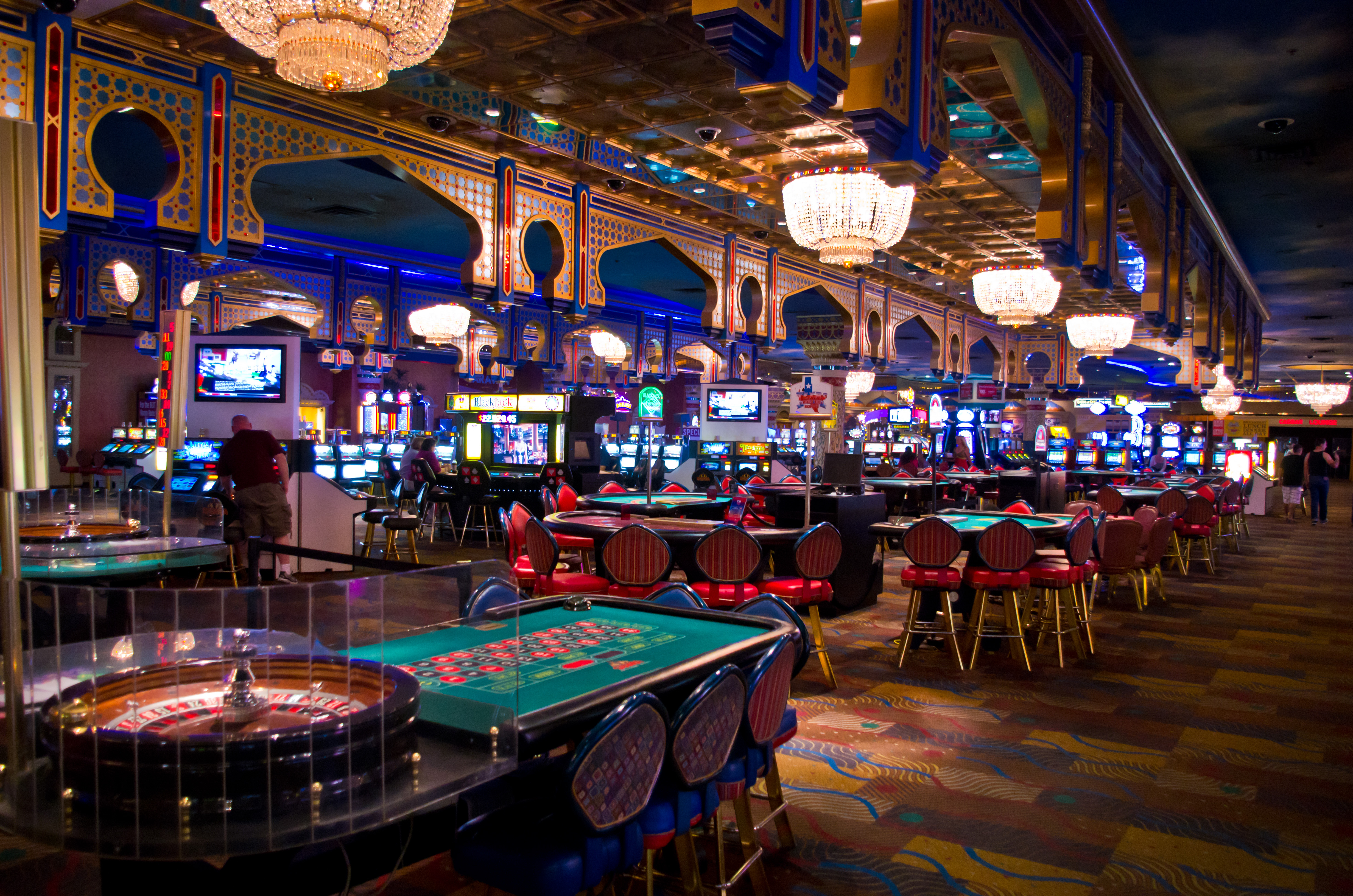 Sahara Hotel and Casino UFABET.